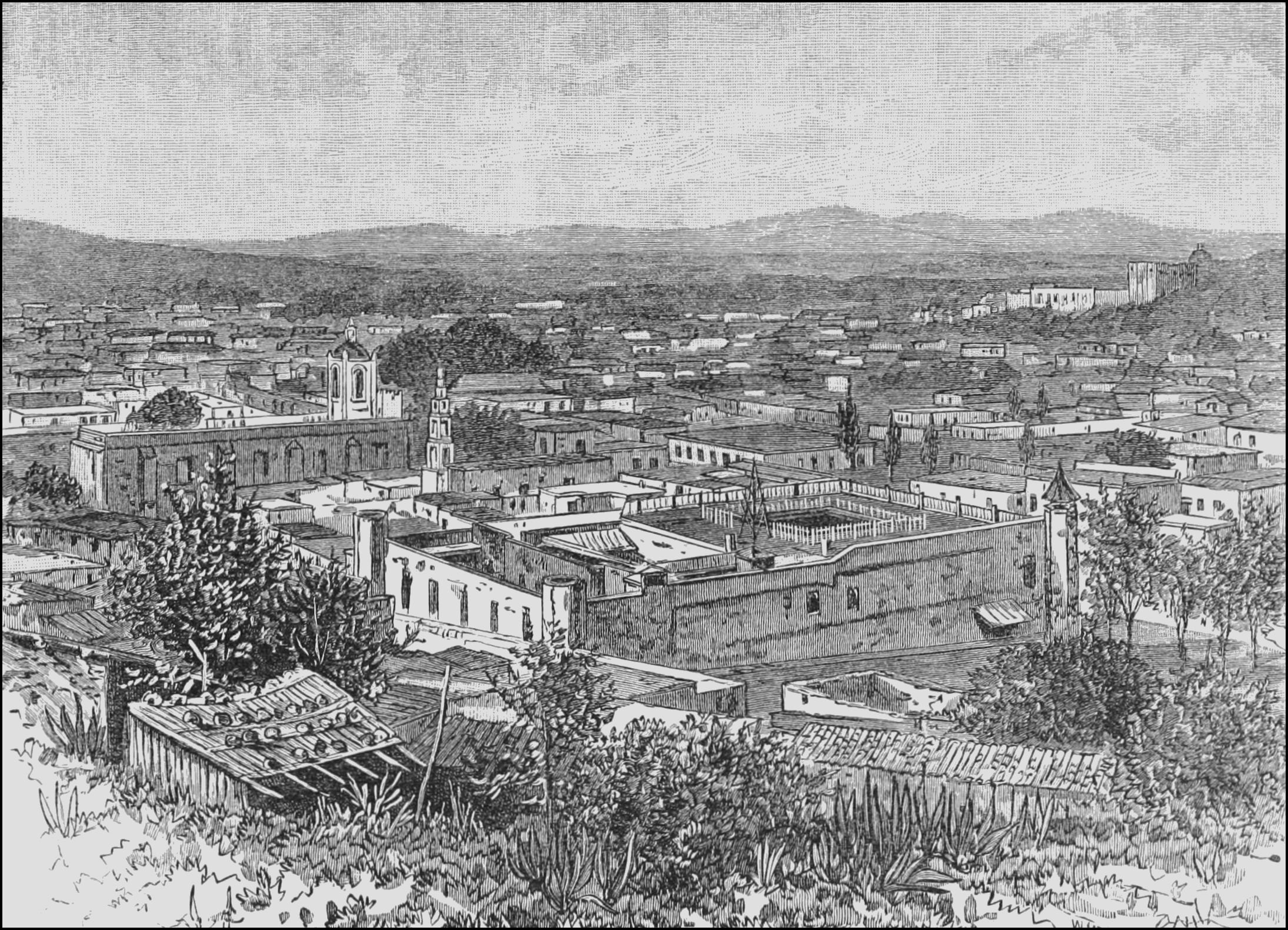 Pachuca